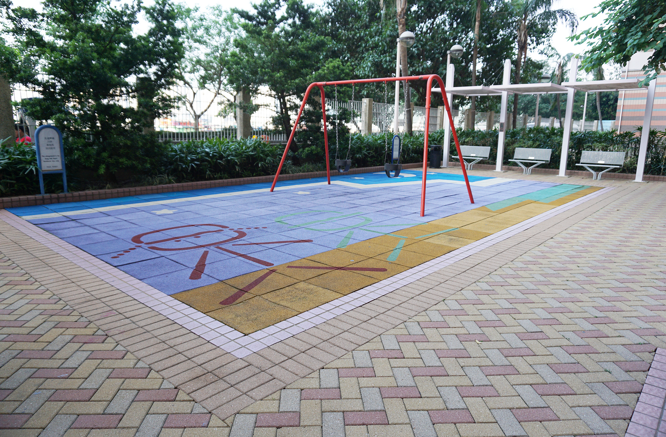 Tung Yuk Court in Shau Kei Wan, Hong Kong.